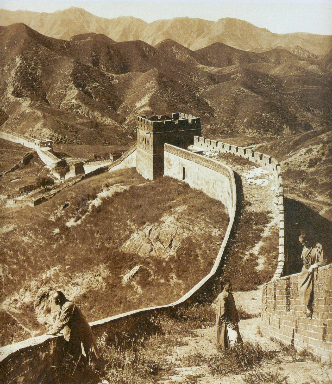 Photograph of The Great Wall of China from 1907.